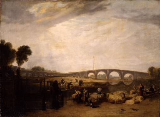 Walton Bridges by J. M. W. Turner (1775–1851) circa 1806 oil on canvas 92.2 x 122.4 cm National Gallery of Victoria, Melbourne, Australia (981-3; Felton Bequest, 1920)